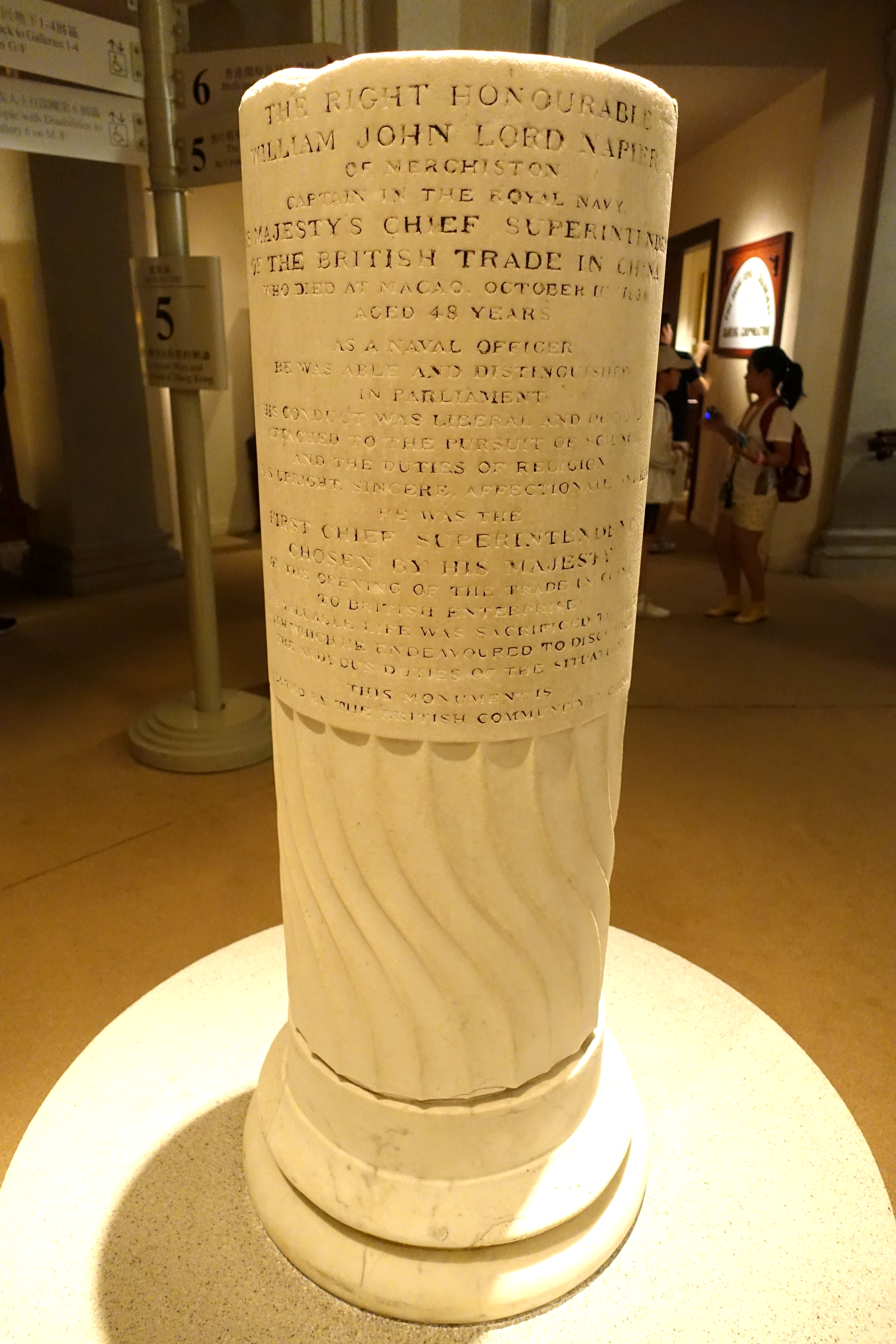 Exhibit in the Hong Kong Museum of History, Hong Kong. This artwork is old enough so that it is in the public domain.